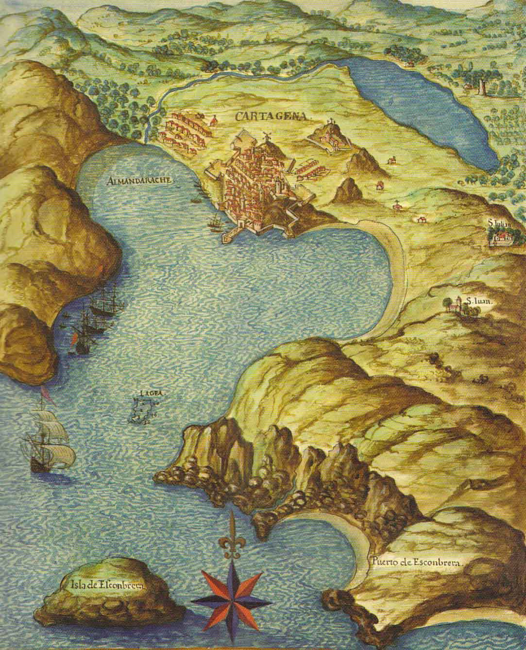 Plan of the Spanish city of Cartagena in 1634, designed by the cartographer Pedro Teixeira Albernaz for La descripción de España y de las costas y puertos de sus reinos.